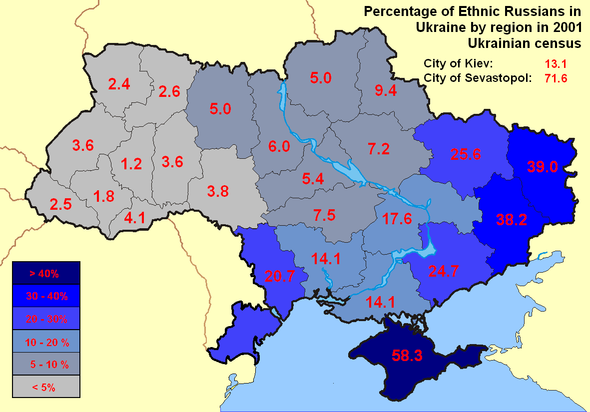 Map of ethnic Russians in Ukraine, based on the 2001 Ukrainian census, as a proportion of each region [1]